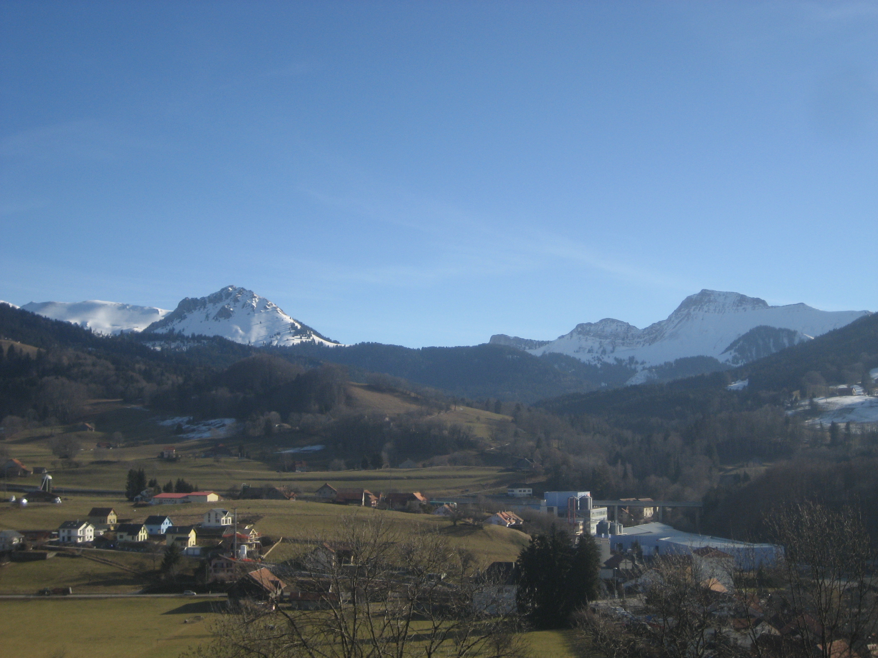 View of Teysachaux and La Dent de Lys